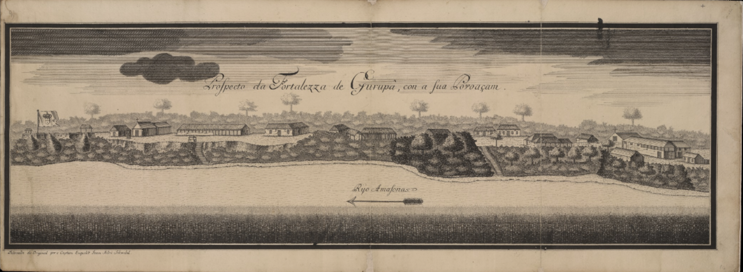 View of the Fortaleza of Garupá. In the Collection from the prospects of the villages, and more remarkable places that are found on the map that the engineers created on expedition starting from the city of Pará to the village of Mariua in the Rio Negro, 1756. Drawing in Indian ink by João André (Johann Andreas) Schwebel. He was a German military engineer and was hired by the Portuguese Crown to be part of the Commission of border demarcations in the northern region of Brazil according to the Treaty of Madrid (1750). The Portuguese commission stayed for five years conducting surveying and hydrographic services in this region. This view, together with the others in this group, constitute an iconographic collection of the region between Belém and Barcelos during the colonial period. Collection of the Biblioteca Nacional do Brasil.